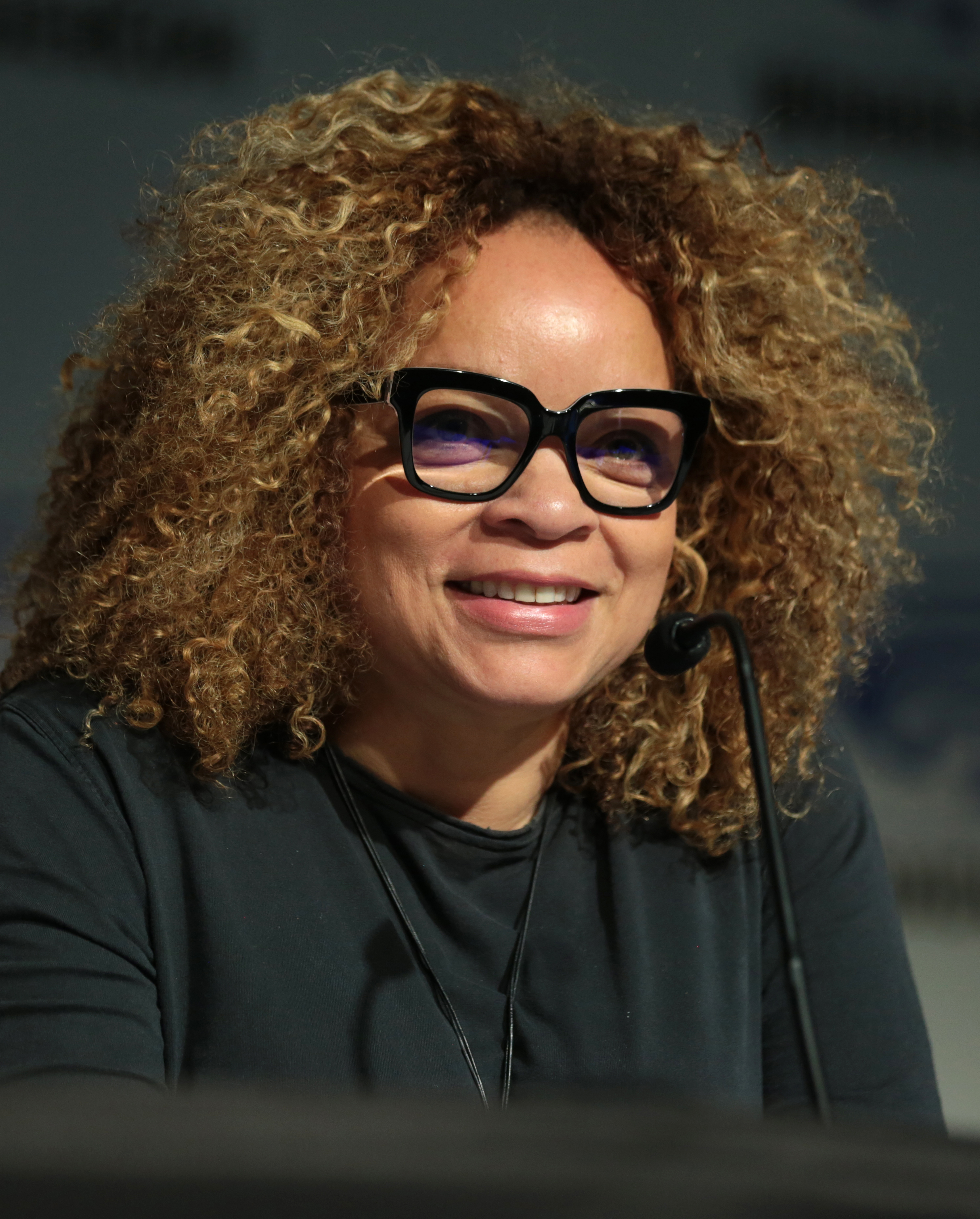 Ruth E. Carter speaking at the 2018 WonderCon in Anaheim, California.